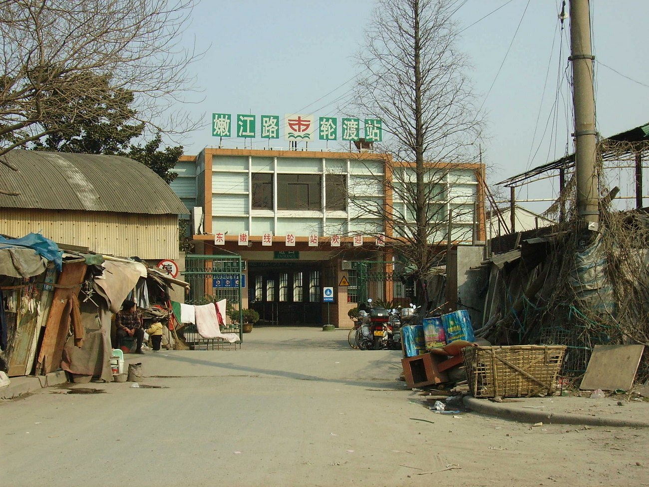 Nenjiang Ferry